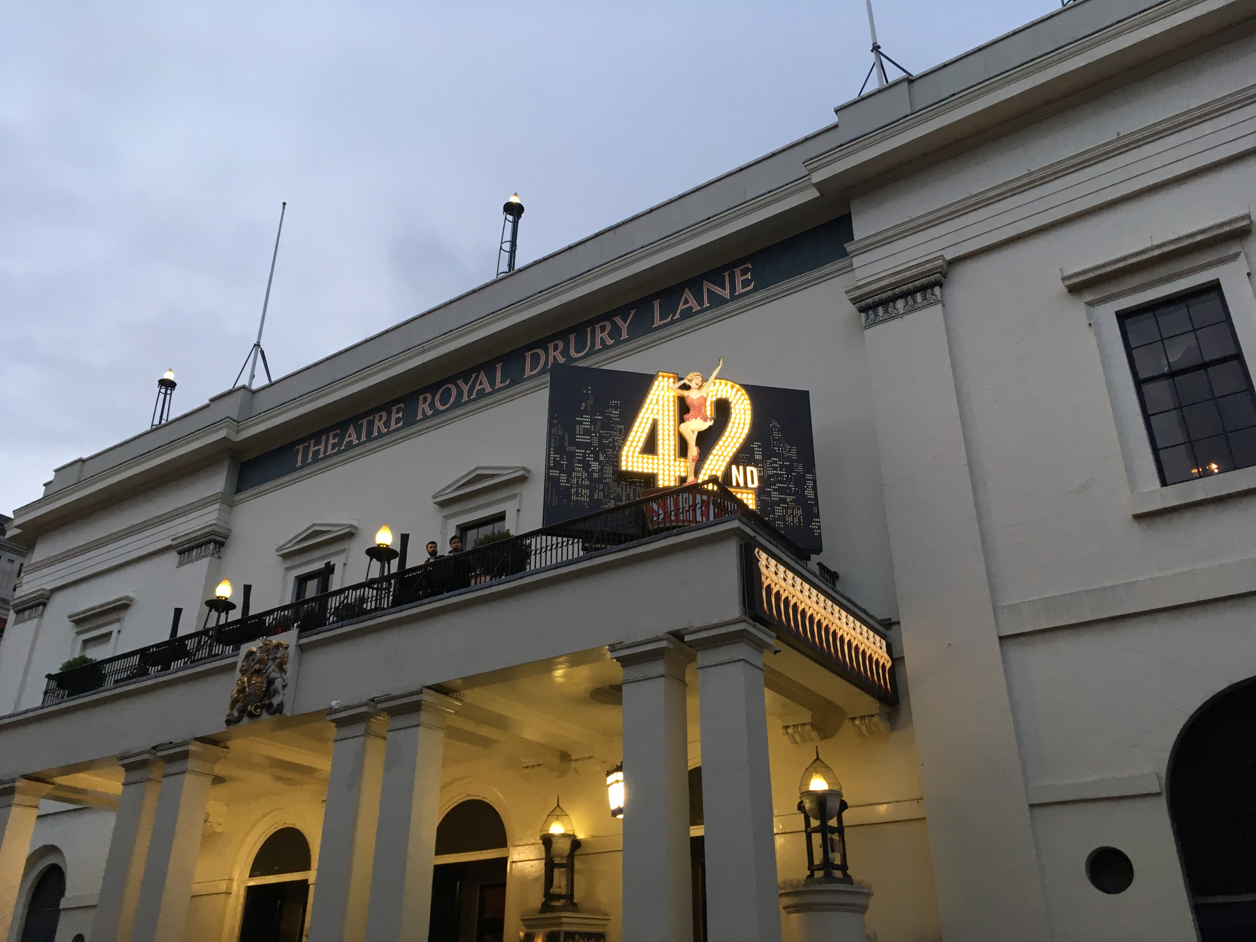 Musical "42nd Street" in Theatre Royal Drury Lane, London, England (September 2017)